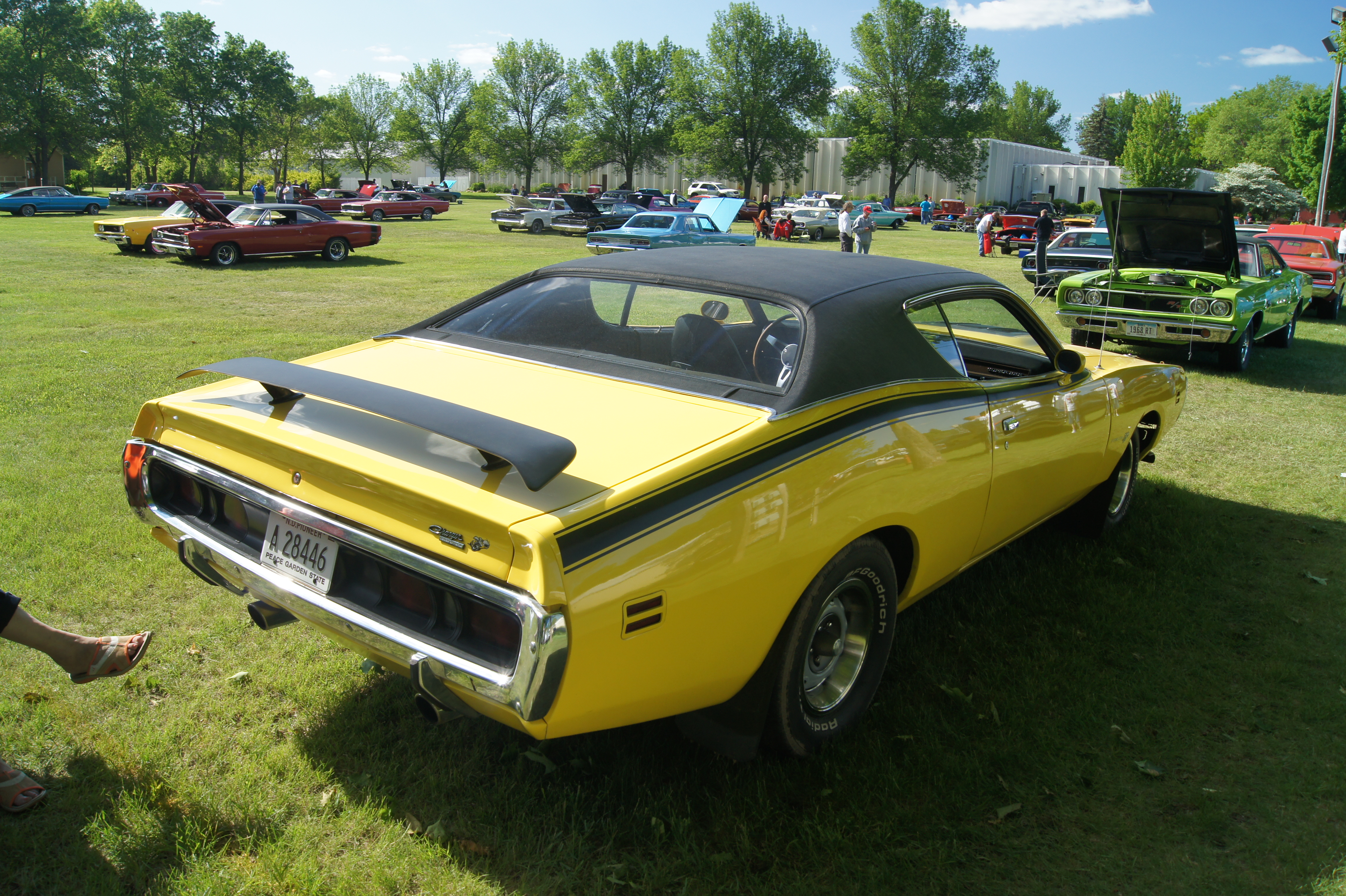 Midwest Mopars in the Park National Car Show & Swap Meet Dakota County Fairgrounds Farmington, Minnesota May 30 & 31, 2015 Click here for more car pictures at my Flickr site.